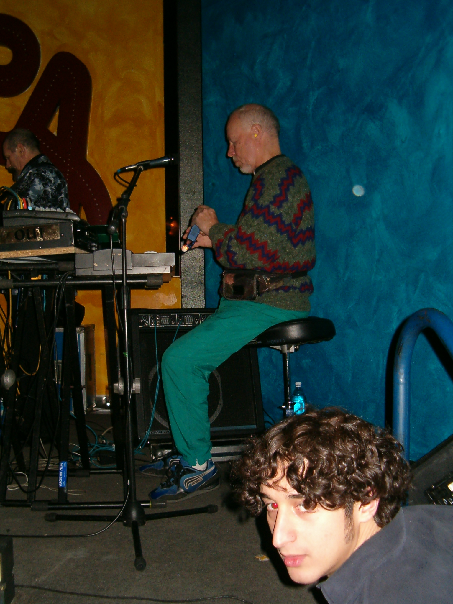 The Grandmothers Re-Invented, live at the America, 24/1/2005, Torino, Italy (Set)